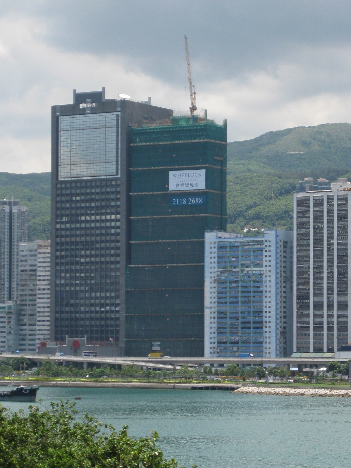 ONE MIDTOWN in June 2011